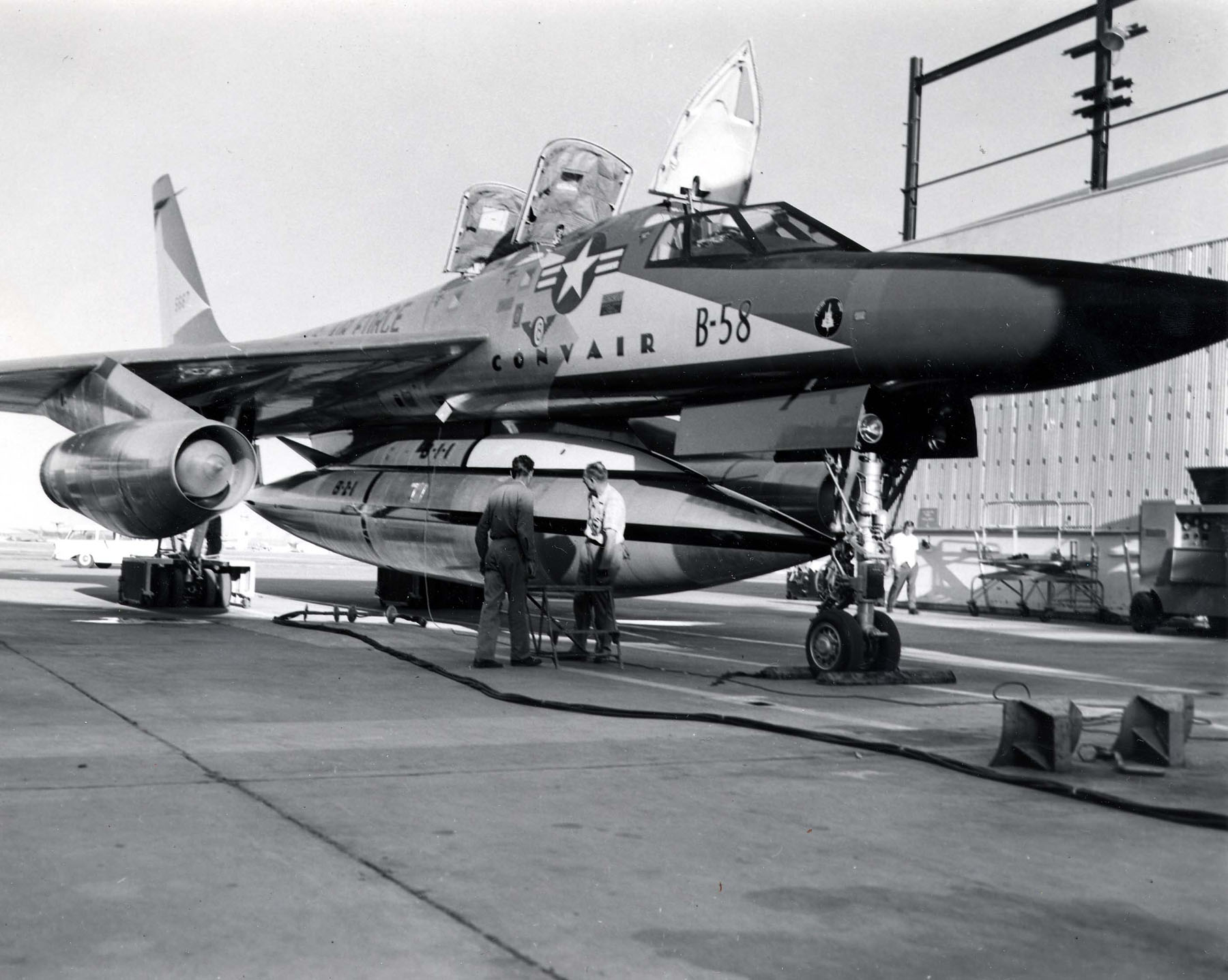 Convair YB-58A Hustler 3-4 front view (SN 55-0667) with a test installation of the two component pod (TCP)